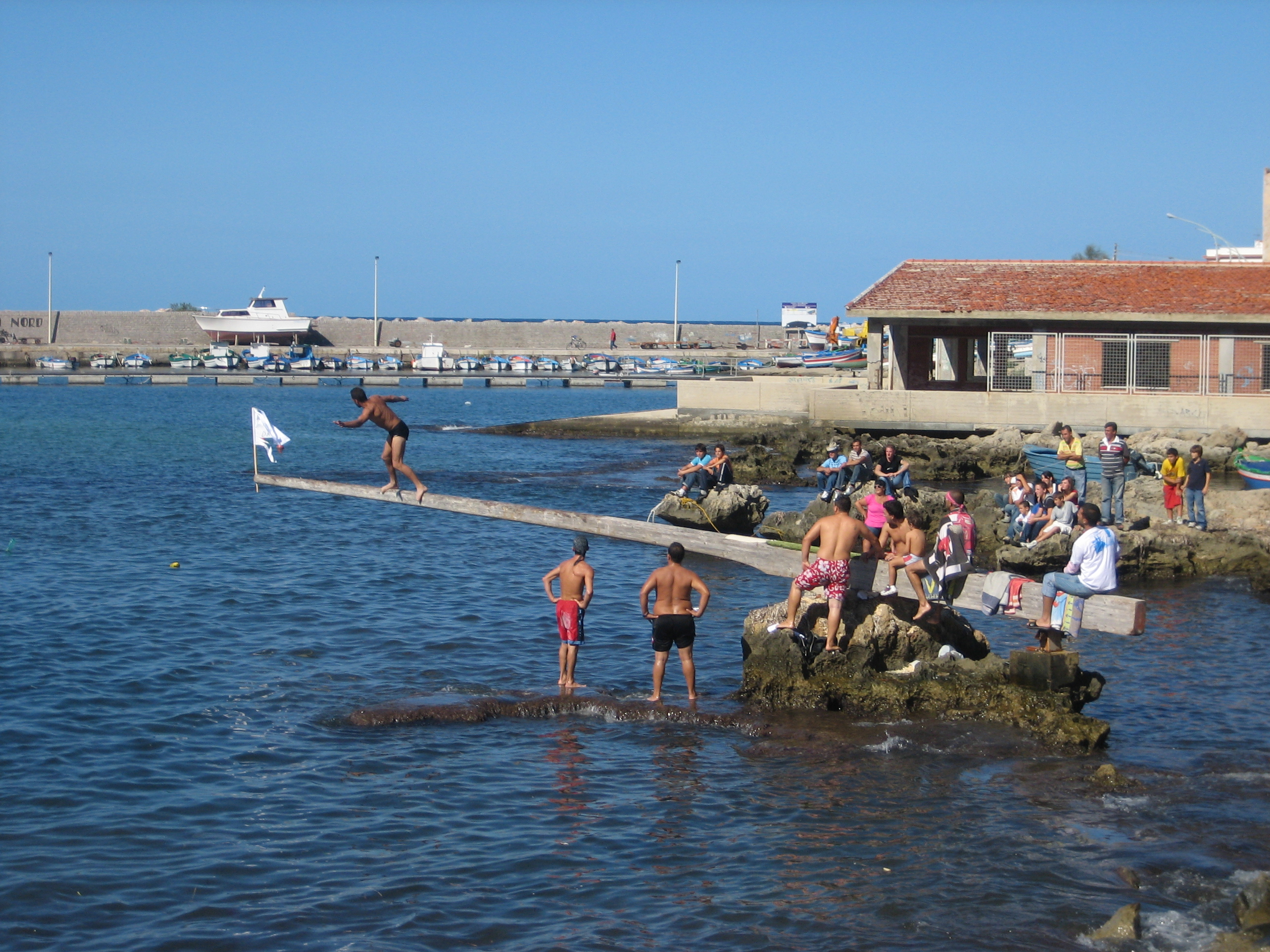 Childen playing a sicilian game called gioco sull antenna for the fiest of the Saints Cosma and Damiano. Sferracavallo, Sicily.